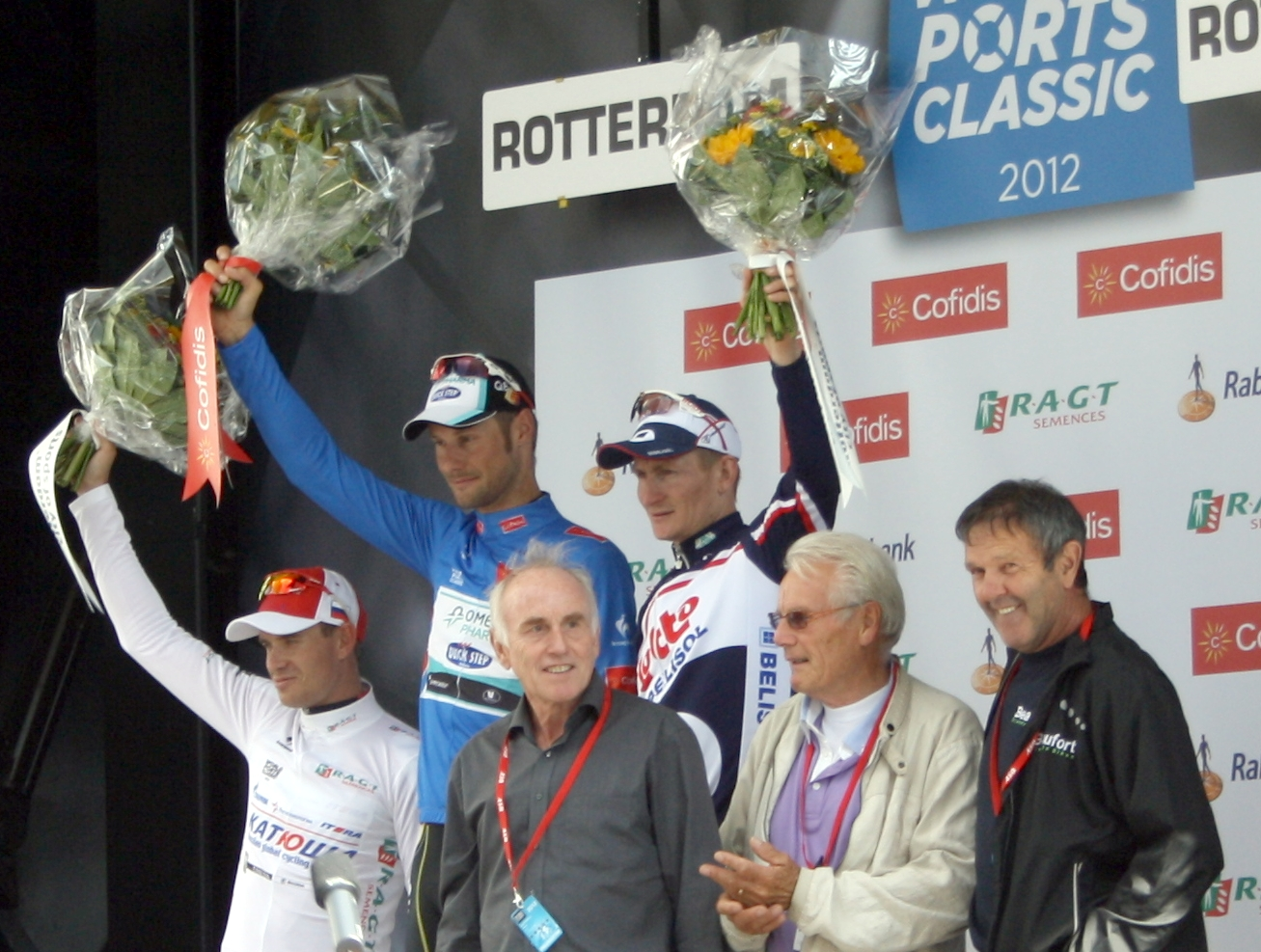 Podium of the World Ports Classic 2012 in Rotterdam, with Alexander Kristoff, Tom Boonen, André Greipel, Joop Zoetemelk, Jan Janssen, Roger De Vlaeminck